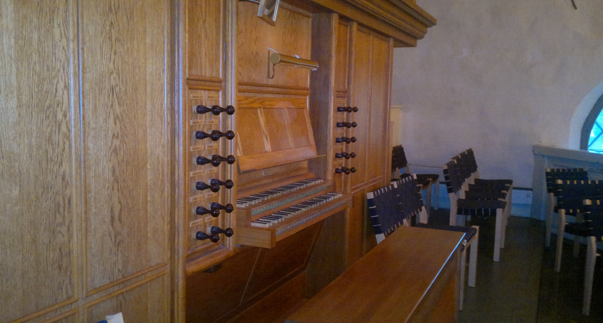 Vanaja Church Organ Hämeenlinna, Finland. 22 voices, built 1988